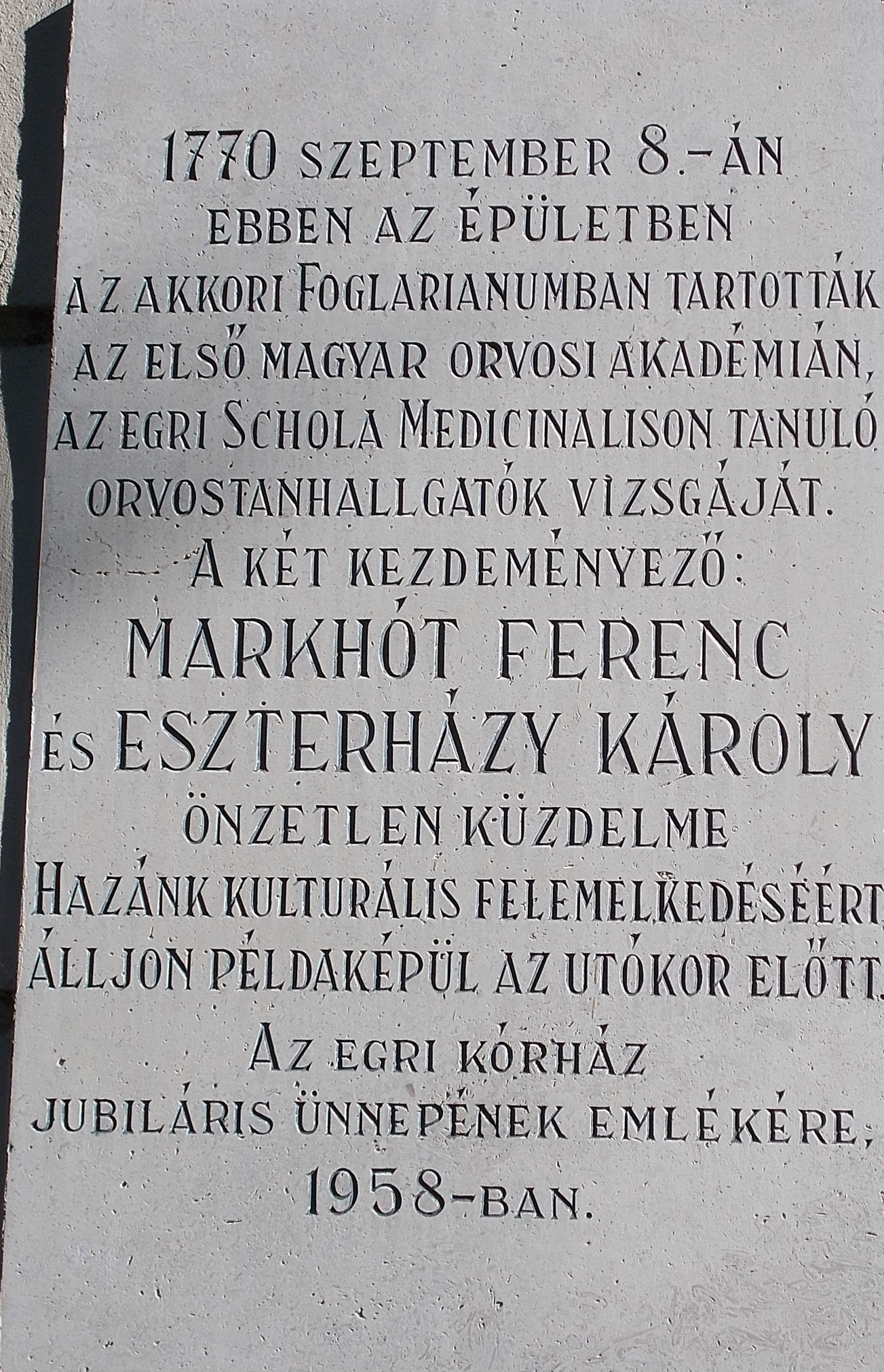 Plaque on Sancta Maria elementary school. - 8 Kossuth Street, Eger, Heves County, Hungary.